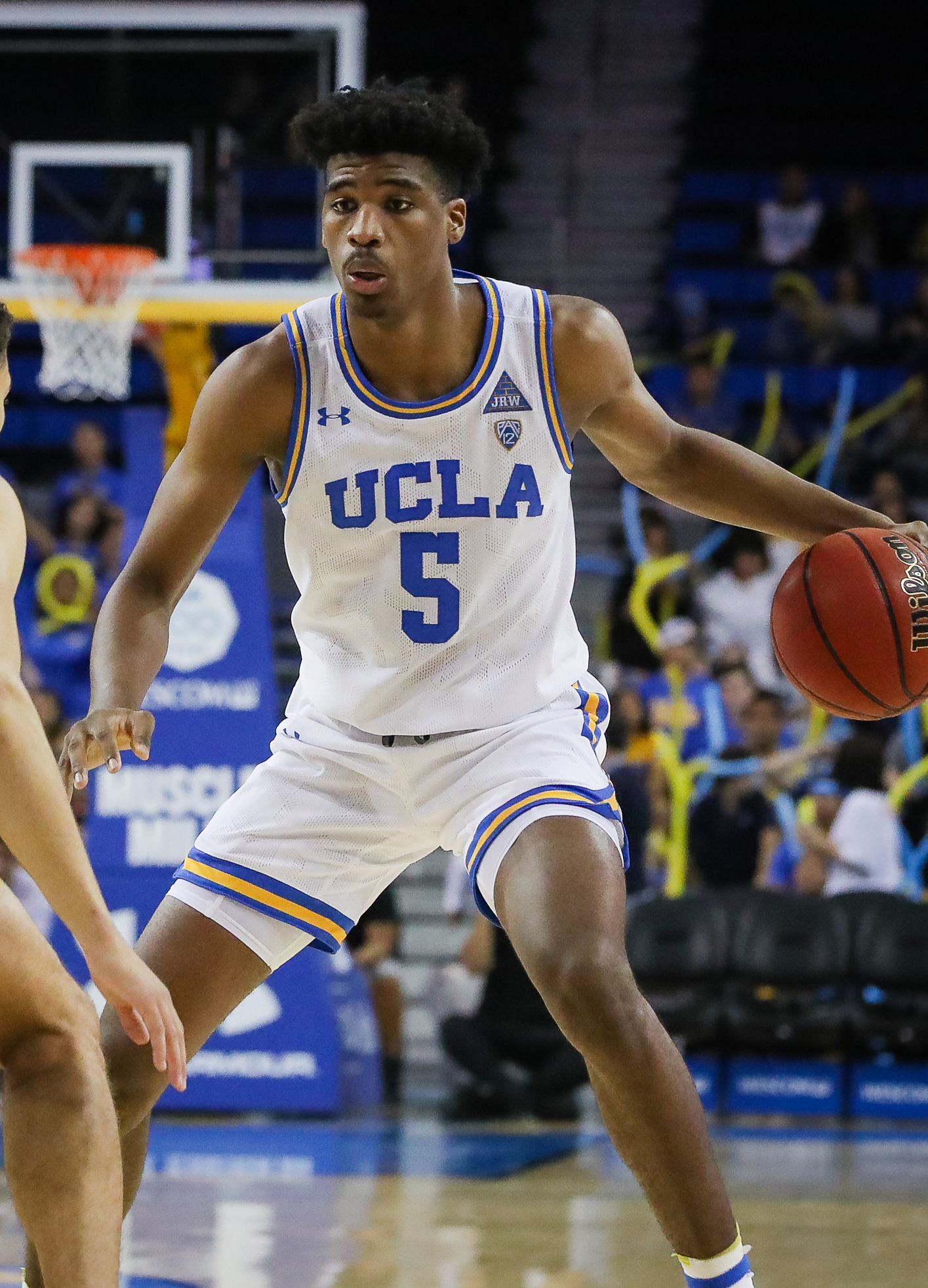 UCLA Bruins guard Chris Smith handles the ball at the top of the key;; UCLA defeats UCSB 77-61, November 10, 2019, Pauley Pavilion, Los Angeles, CA. Photo by Steve Cheng